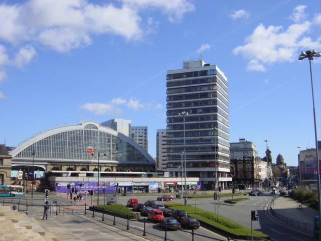 Lime Street from St George's Hall. Lime Street from the top of the steps of St George's Hall showing Lime Street Station to the left.